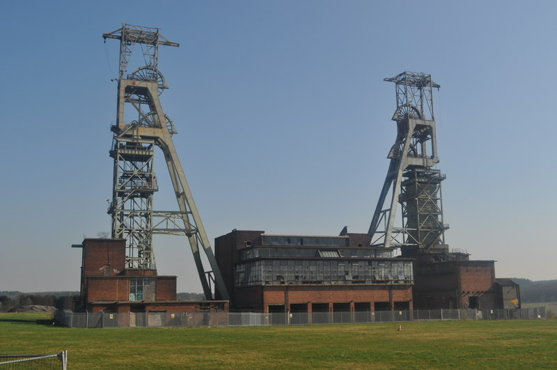 Clipstone Colliery, near to Clipstone, Nottinghamshire, Great Britain. A side on view of the famous land mark. The headstocks are the tallest in Europe and third tallest in the world. The rest of the colliery has been cleared since the site closed in 2003. Now the headstocks are under threat. SK5963 : Clipstone Colliery